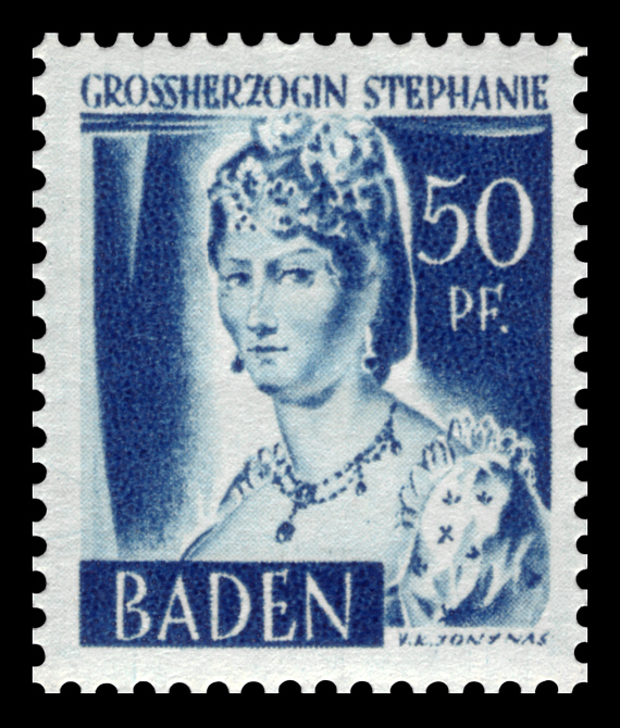 French occupied zone, Baden, persons and views of Baden (II) Ausgabepreis: 50 Pfennig First Day of Issue / Erstausgabetag: 21. Juni 1948 Michel-Katalog-Nr: 24 (Französische Besetzungszone, Baden)